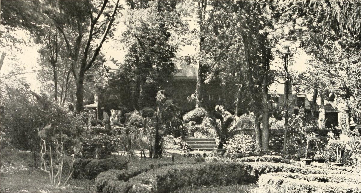 "Lindenshade" (Horace Howard Furness house), Wallingford, Pennsylvania (1873, demolished 1940).